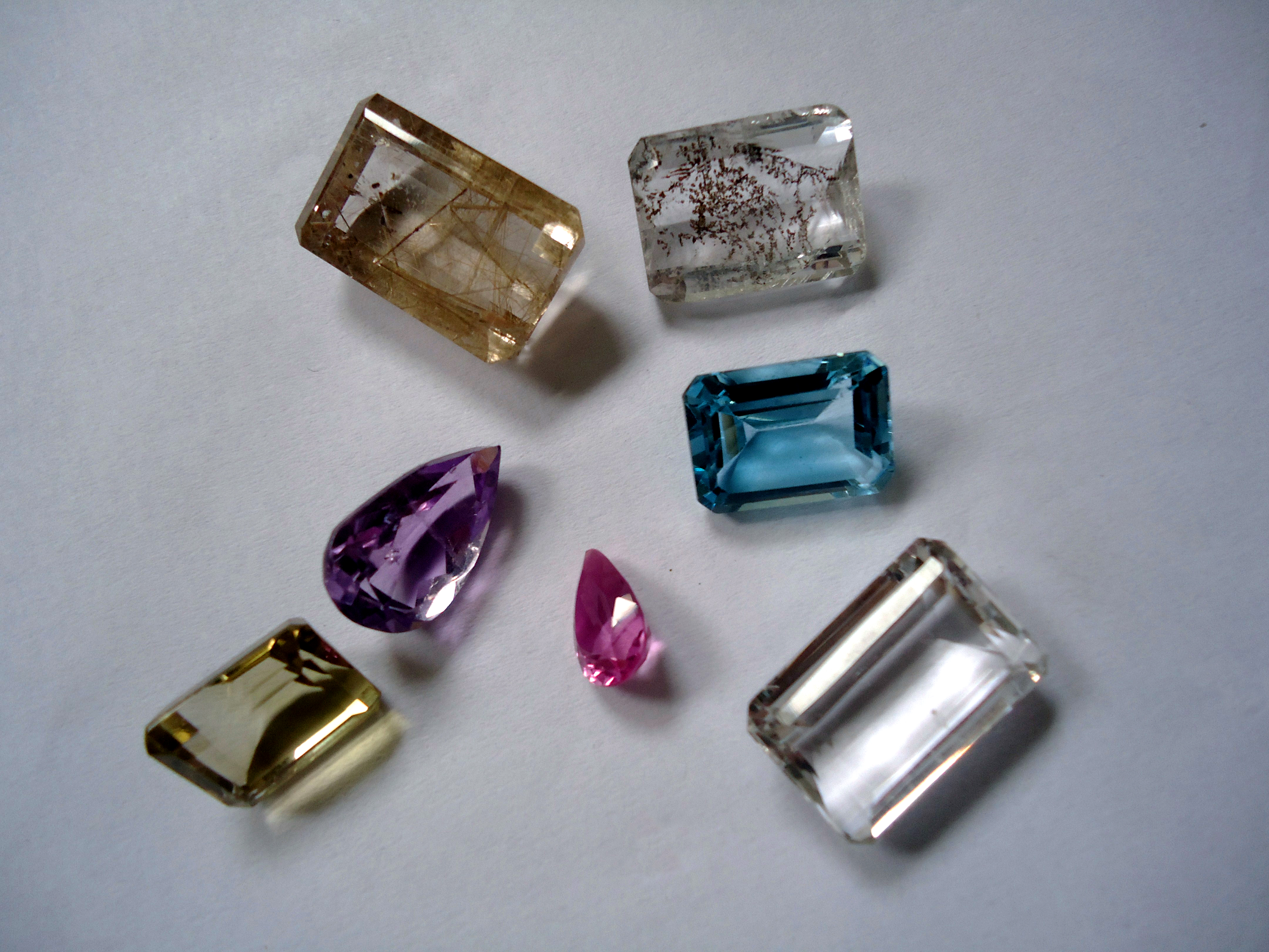 Semi-precious gemstones : quartz, amethyst, blue topaz, spinel.